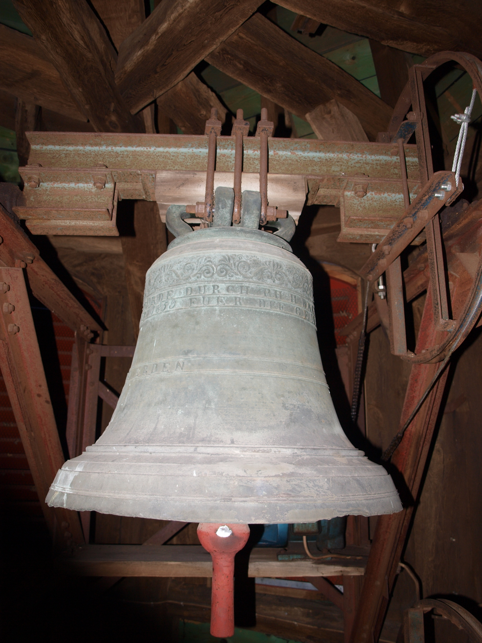 Bell of the protestant church of Södel, cast 1853 by Philipp Bach in Windecken